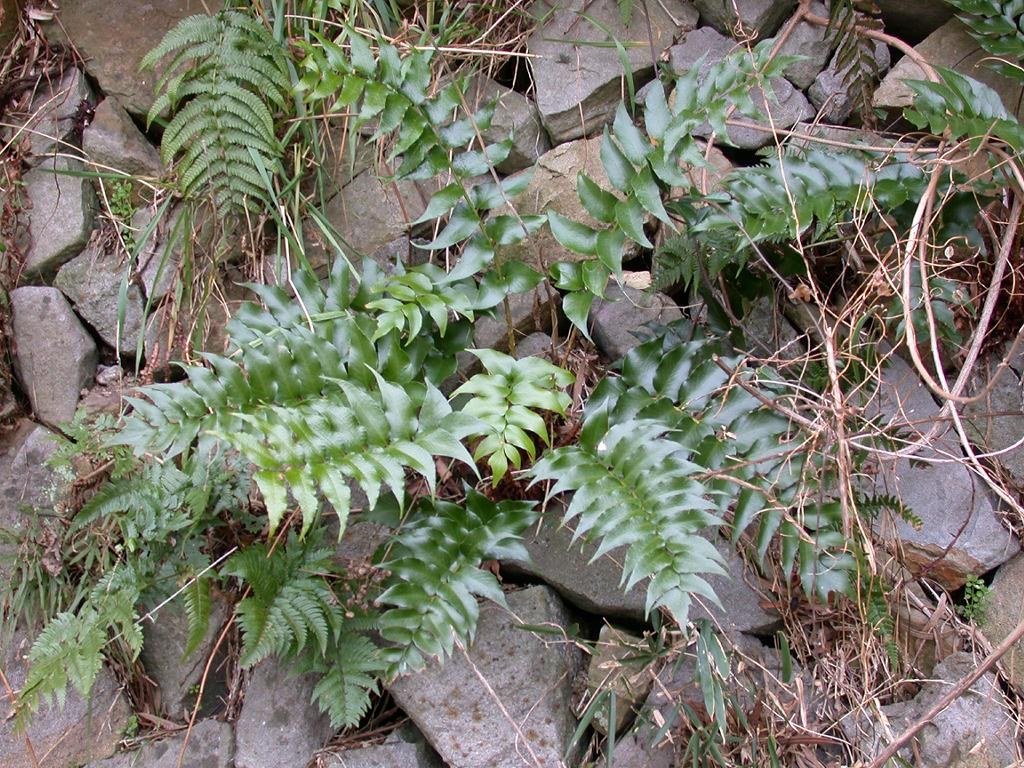 Name Crytomium_falcantum （オニヤブソテツ） Family Dryopteridaceae Date;2006,02;Tanabe city, Wakayama prefecture, Japan Author;Keisotyo